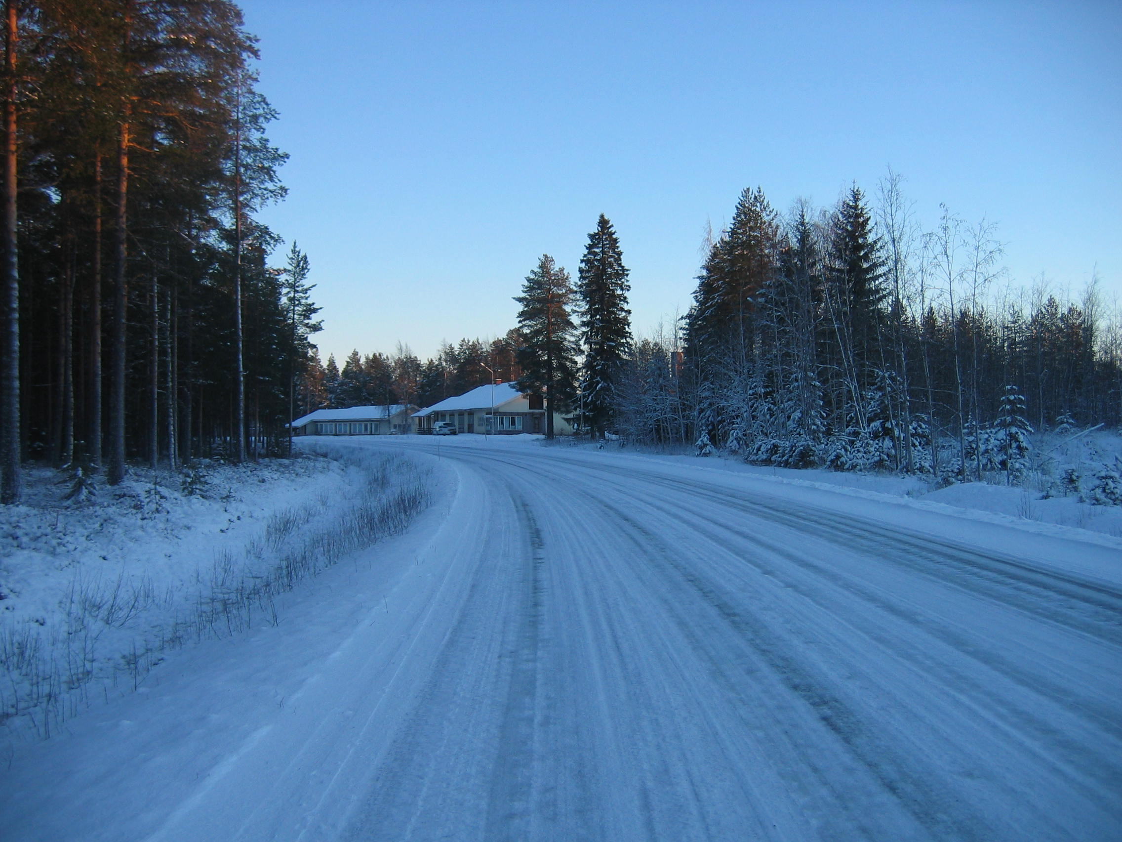 Connecting road 8792 in Jylhämä, Vaala, Finland